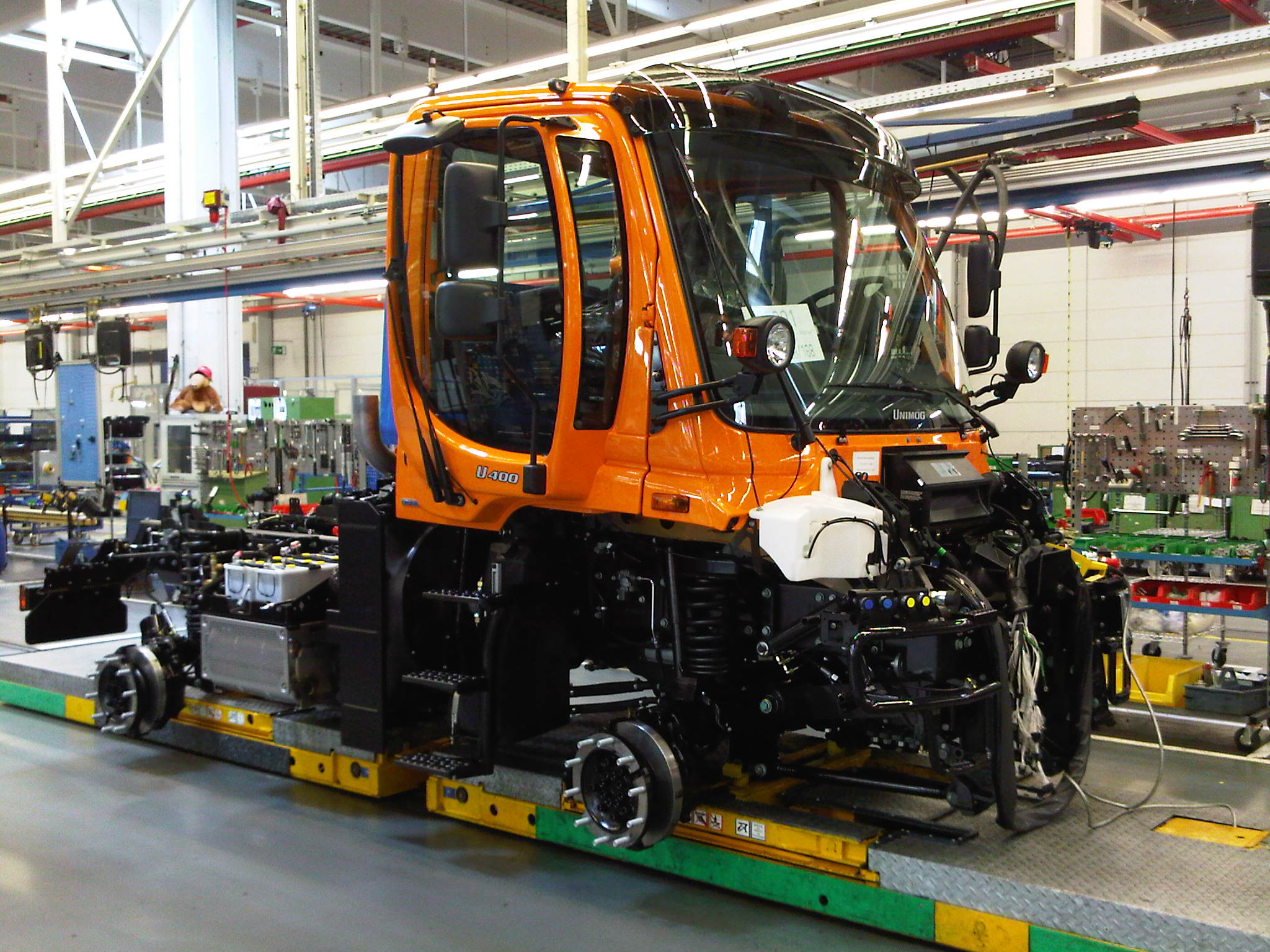 Orange Unimog U400 on the assembly line in the Mercedes-Benz production facility Wörth.60 Jahre Unimog - Wörth 2011 209 Produktion